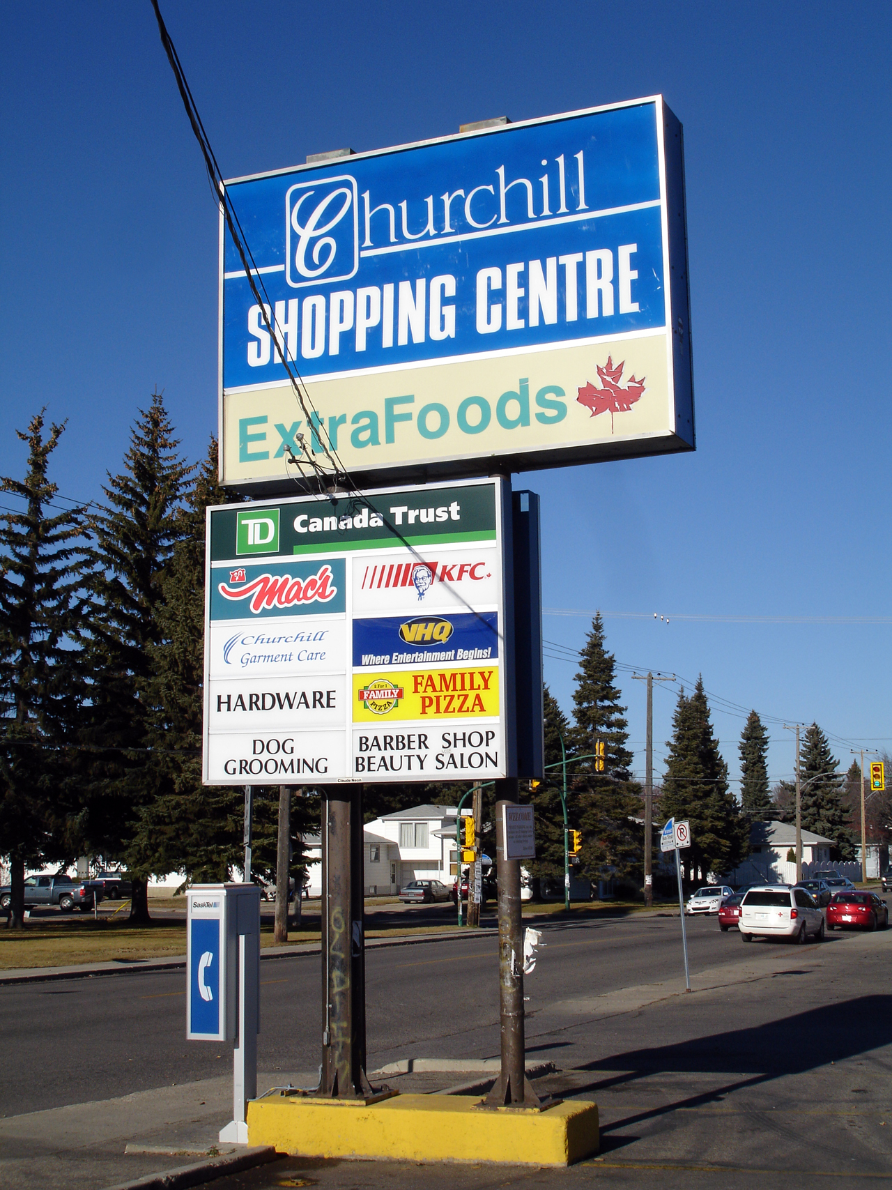 Sign of the Churchill Shopping Centre in Saskatoon, Saskatchewan, Canada